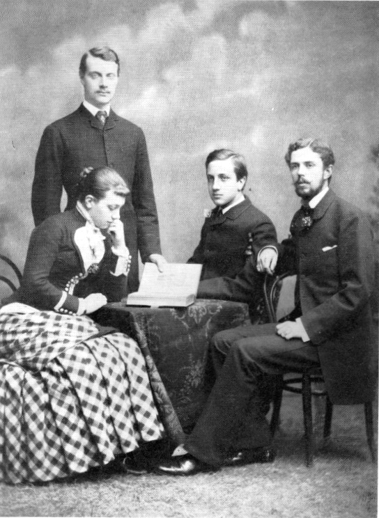 Crown princess Victoria with her brothers, grand duke Friedrich and Ludwig Wilhelm and her fiancee crown prince Gustav (sitting to the right)